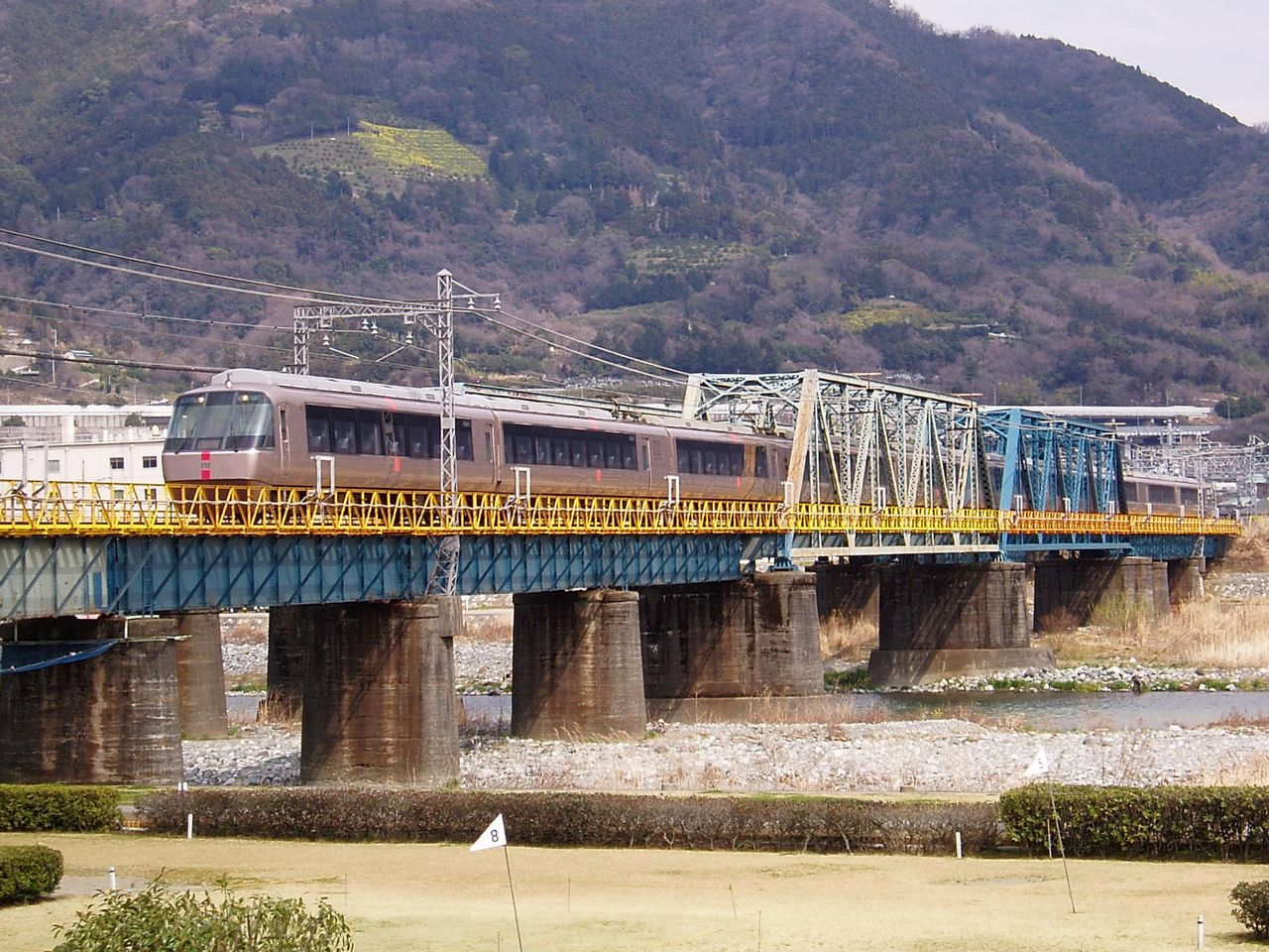 Odakyu Electric Railway Sakawagawa bridge